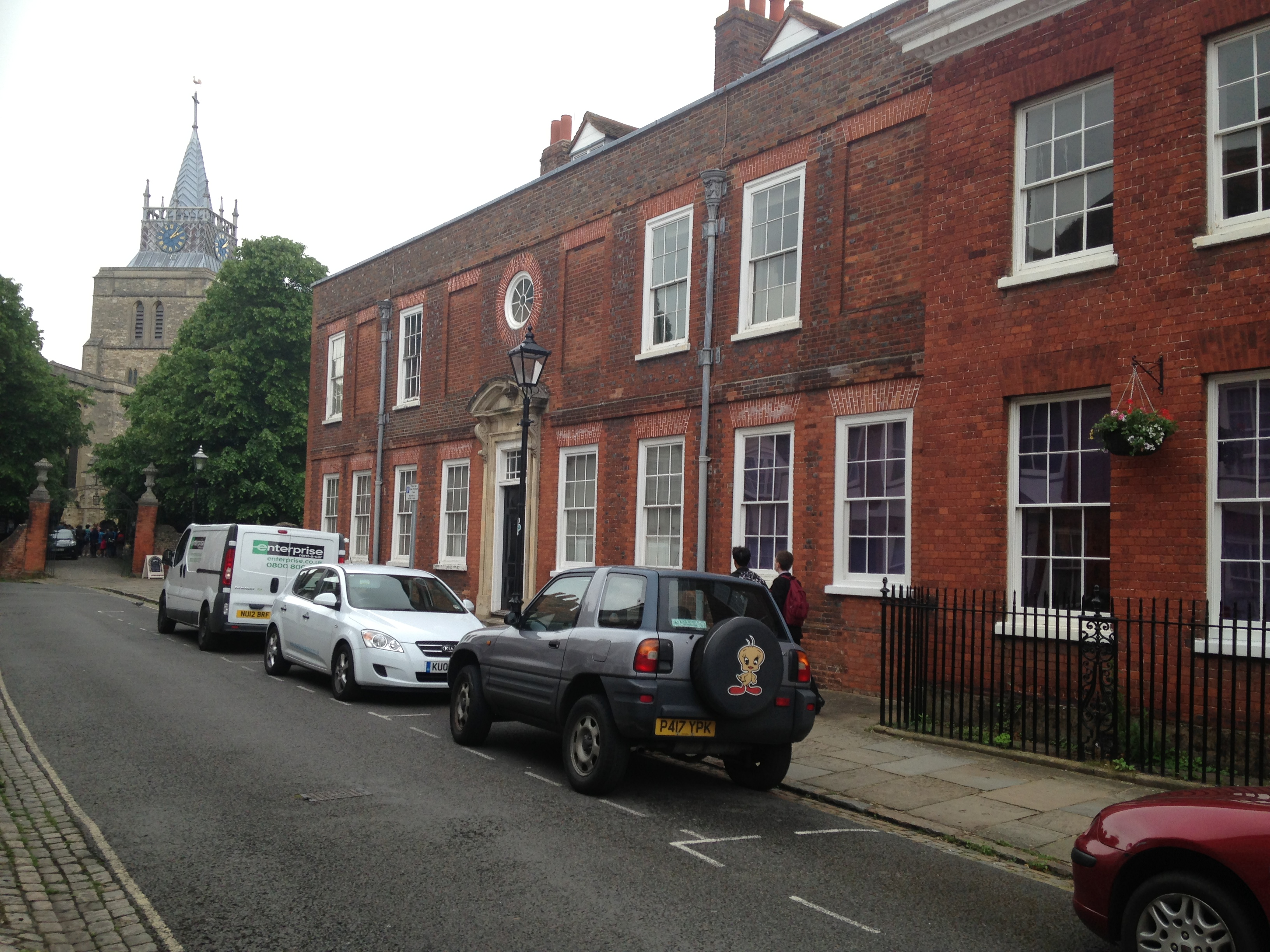 Former site of AGS in Aylesbury town centre